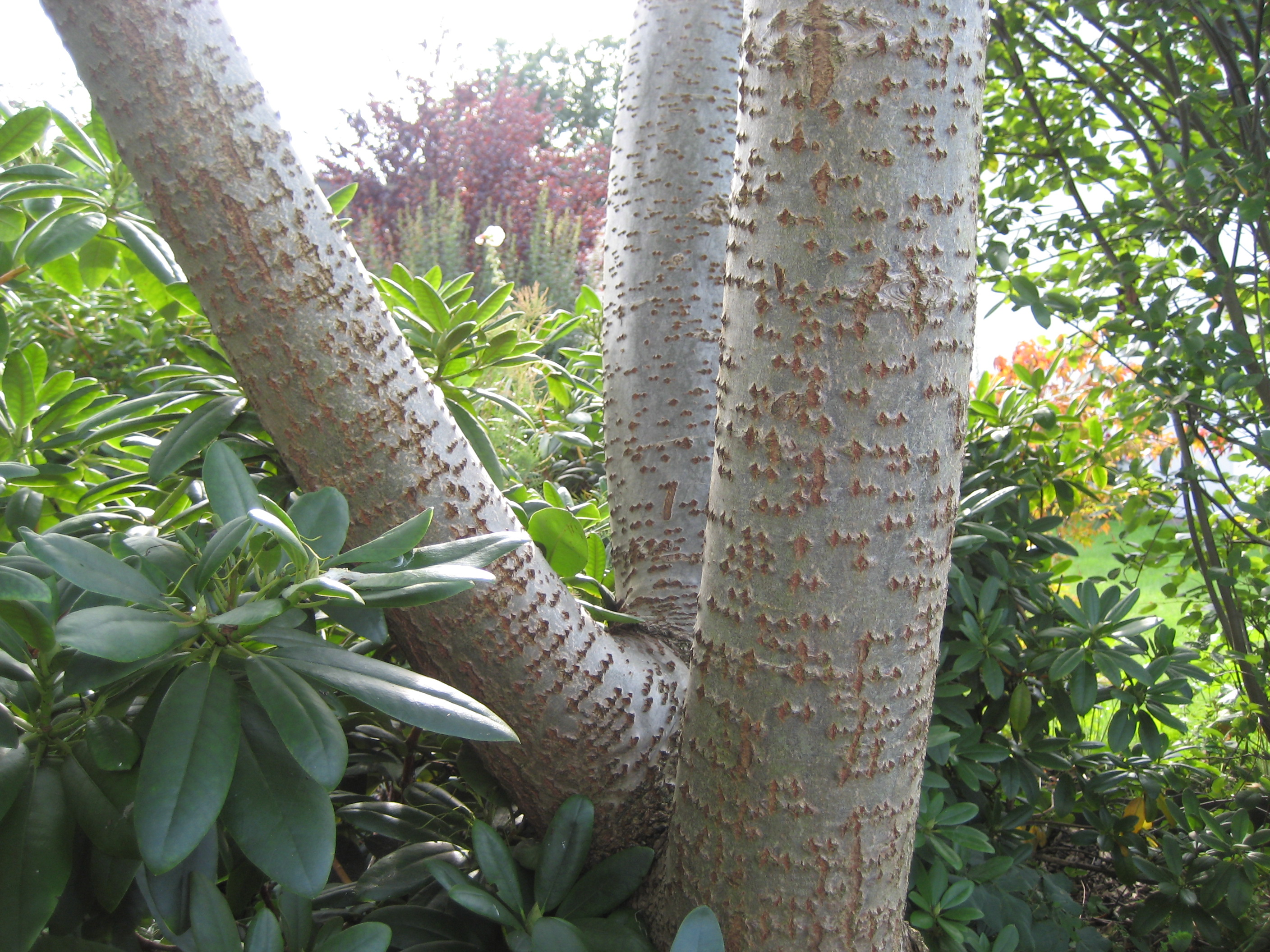 Silver Poplar (populus alba nivea)